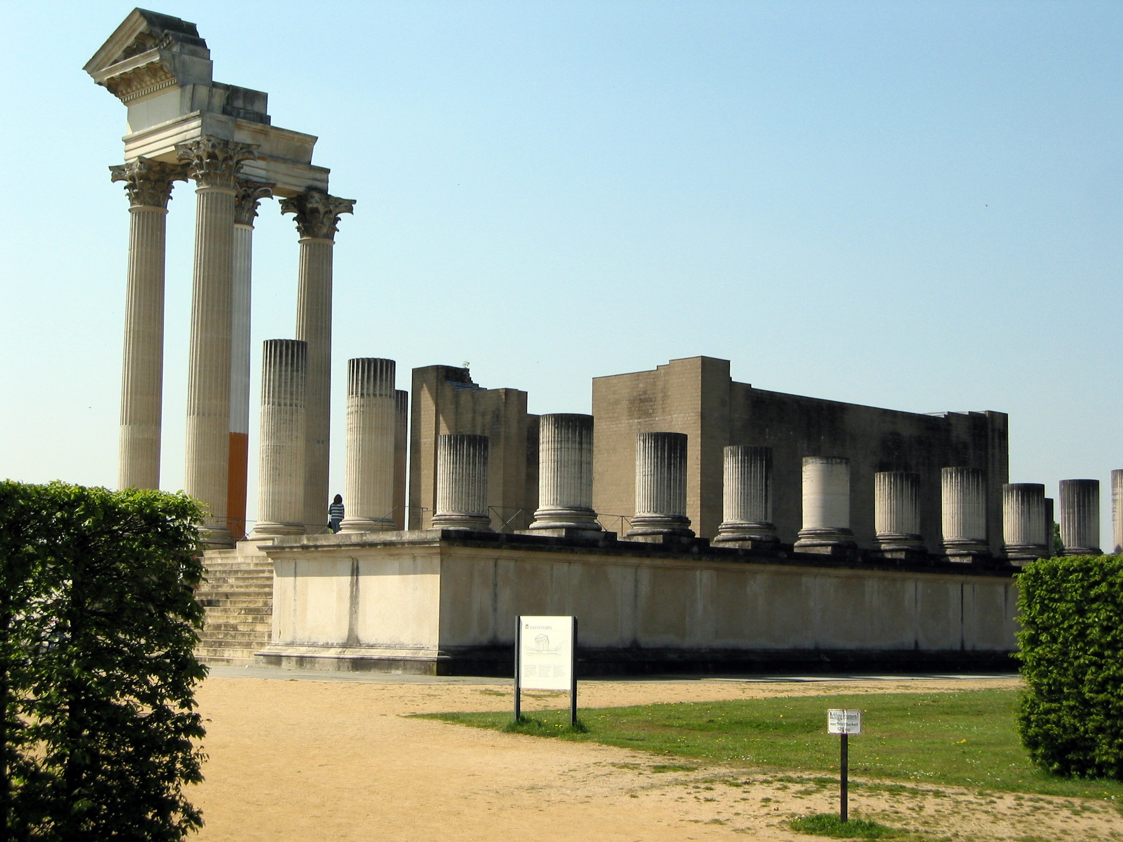 "Harbor temple" in the archaeological park in Xanten, Germany. The Roman archaeological site having been used as a quarry for centuries, this temple is in a large part a modern reconstruction. Photo taken April 23, 2005, by Magnus Manske, with expressed verbal permission. Colors/contrast enhanced with Picasa.